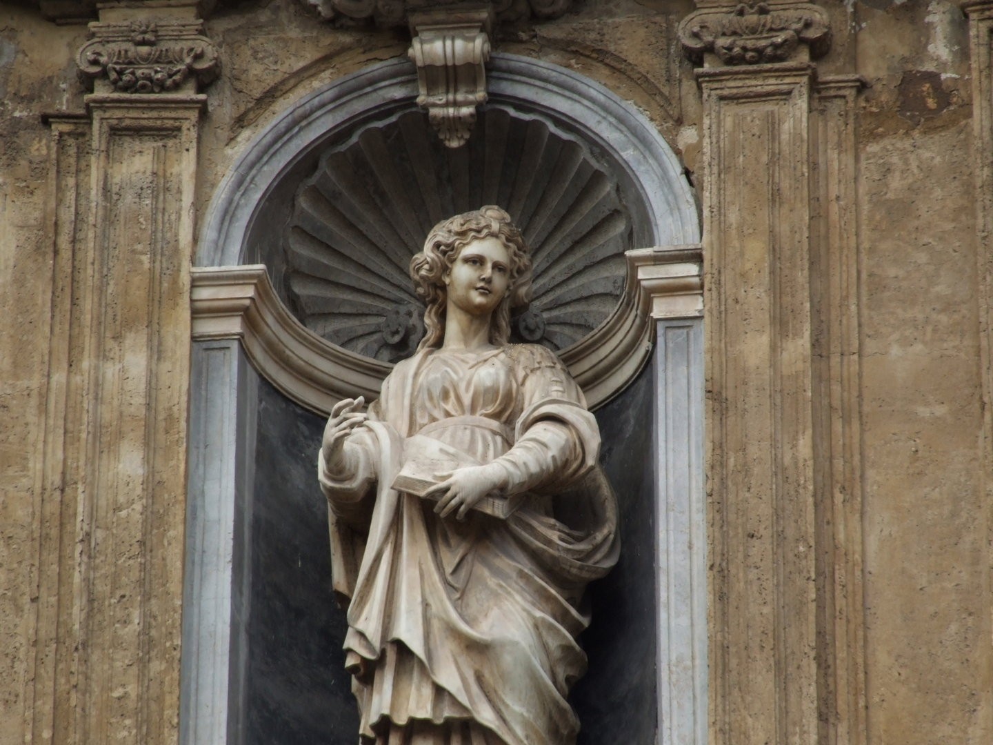 Statue of Saint Oliva of Palermo, Quattro canti, north side. Palermo (Italy). Creative Commons CC0 CC